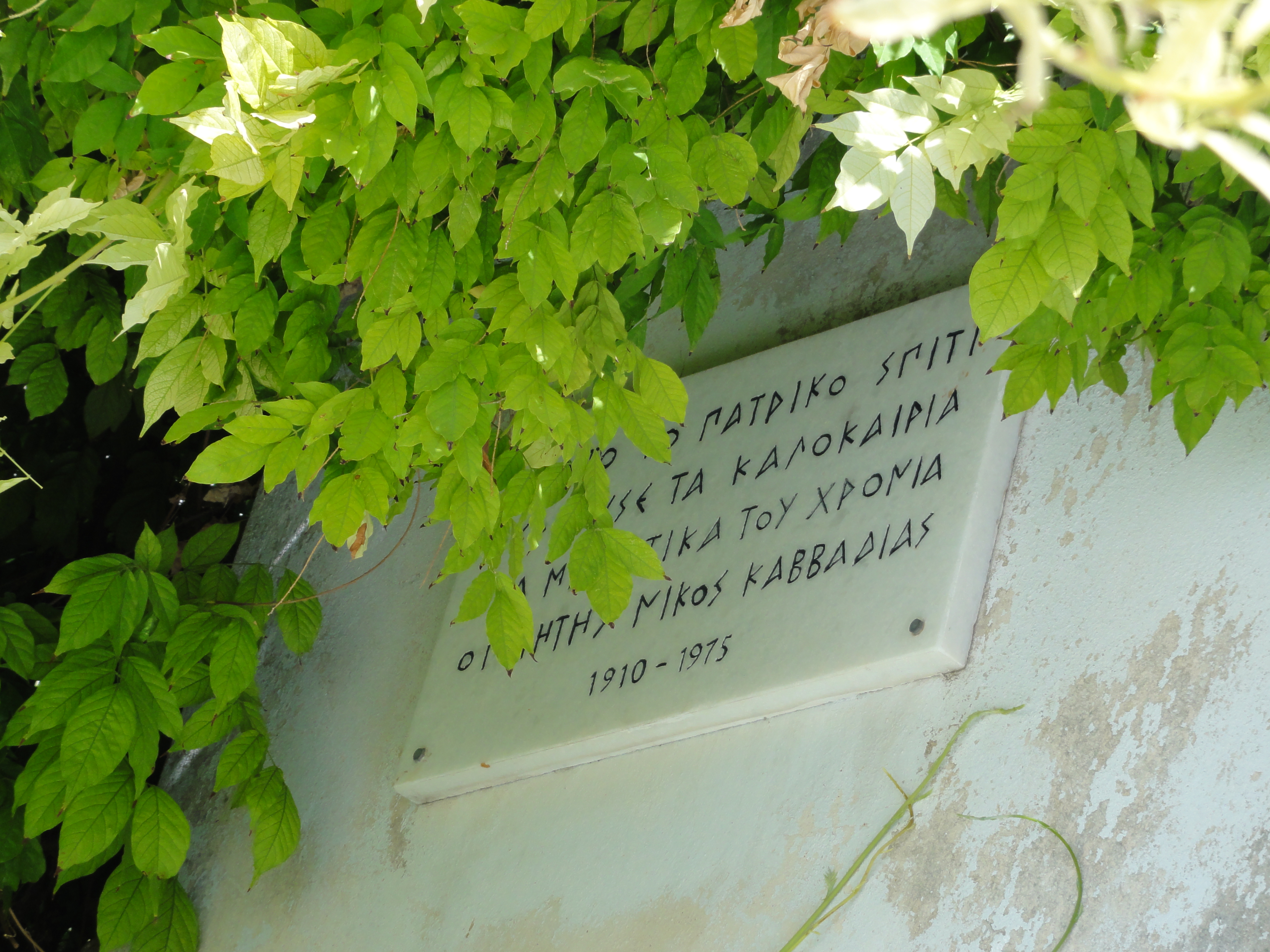 Photographs taken in Kefalonia. Plaque on the house of Nikos Kavvadias (though as of 2012 very hard to see due to being hidden by plants).